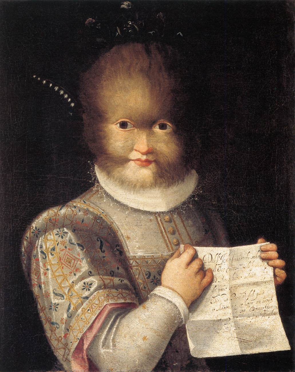 Portrait of Tognina Gonsalvus (b. 1580)